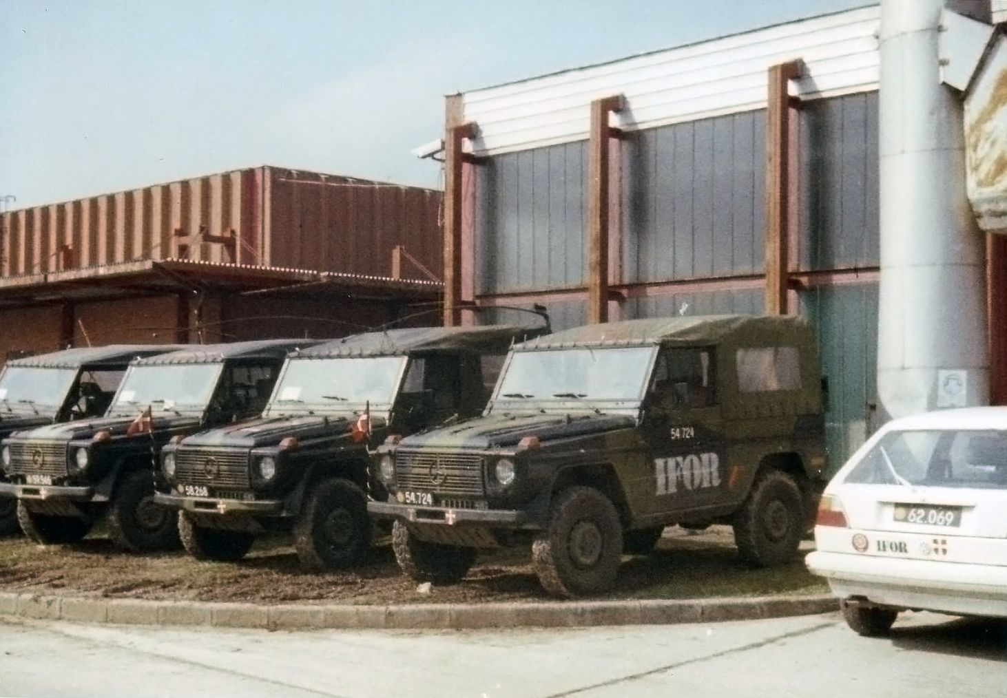 The IFOR vehicles. The Implementation Force (IFOR) was a NATO-led multinational force in Bosnia and Herzegovina under a one year mandate from 20 December 1995 to 20 December 1996. Its task was to implement the military Annexes of The General Framework Agreement for Peace (GFAP) in Bosnia and Herzegovina.